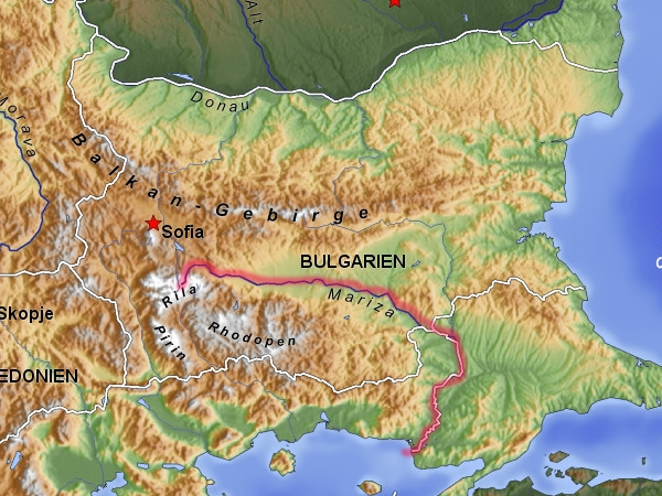 location of Mariza river in Bulgaria and Greece